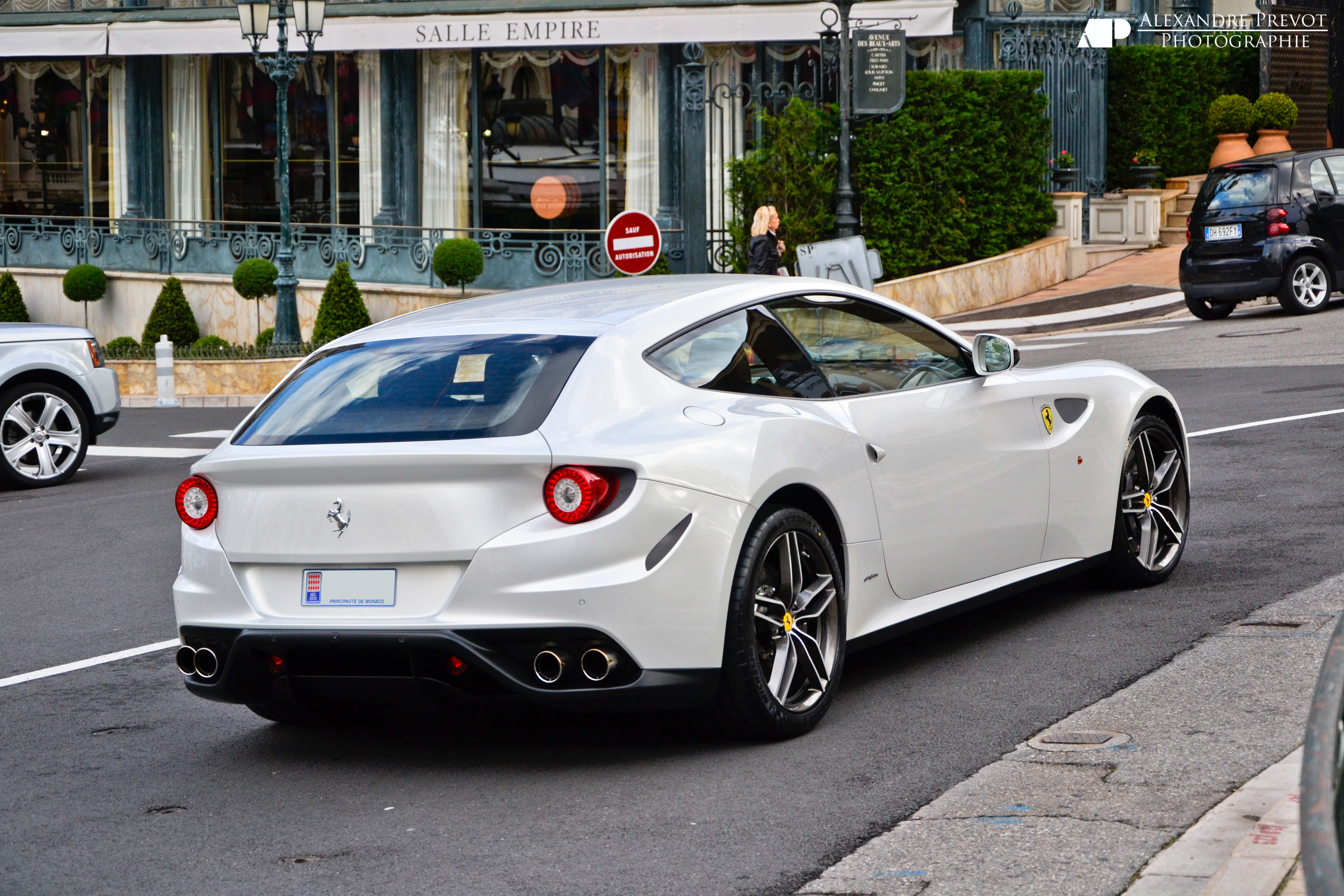 Ferrari FF in Monaco